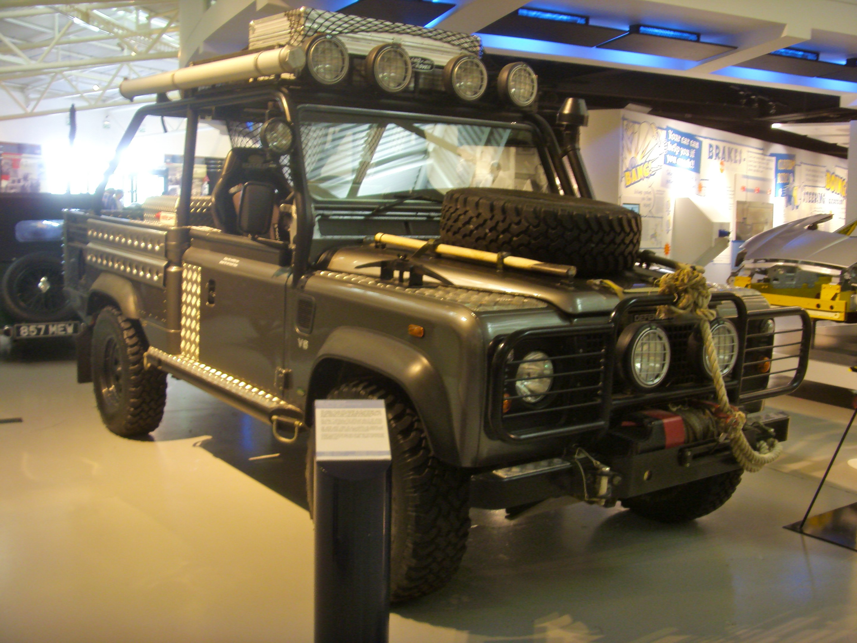 Lara Croft's vehicle from the Tomb Raider movie